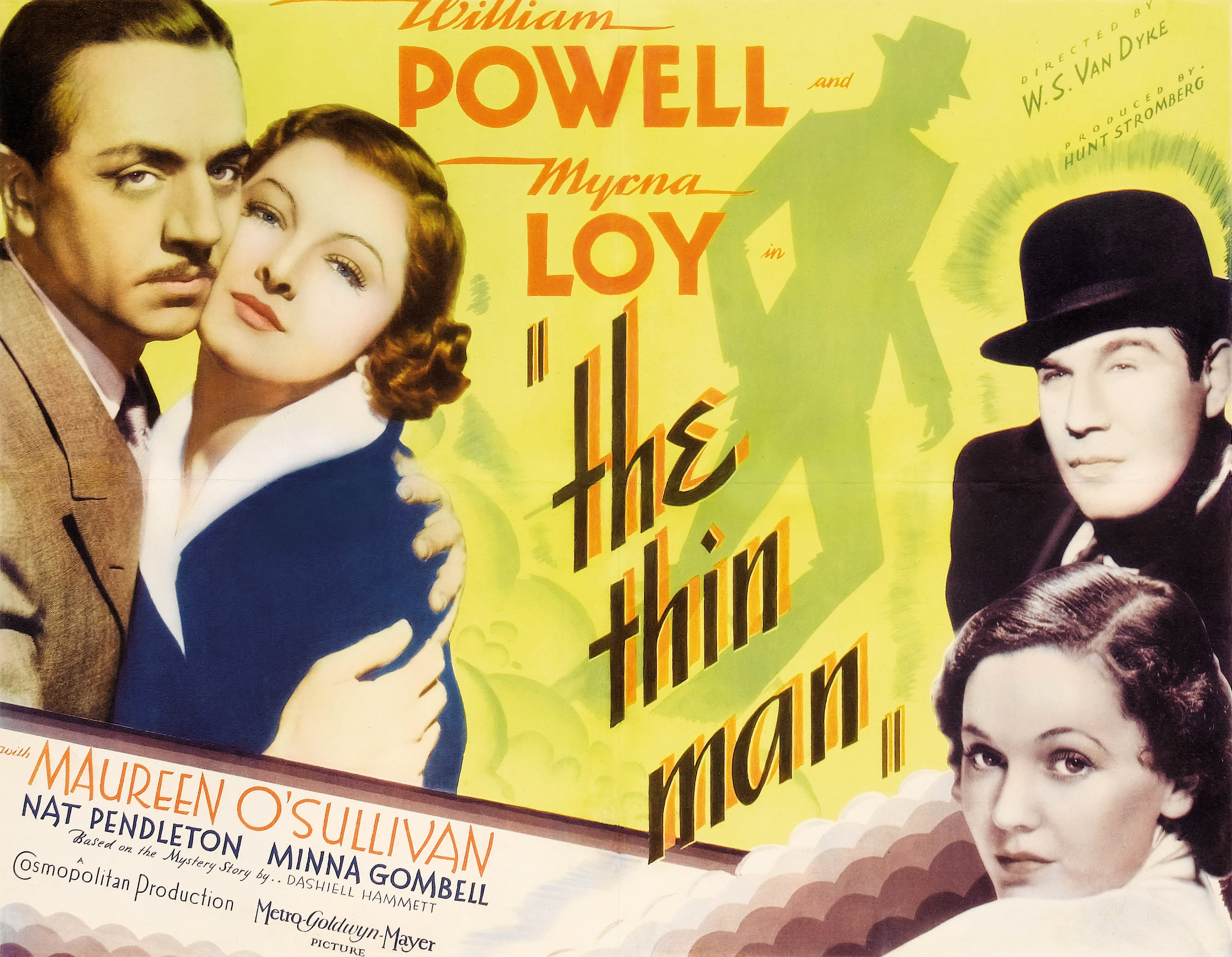 Film poster for the American detective film The Thin Man (1934).